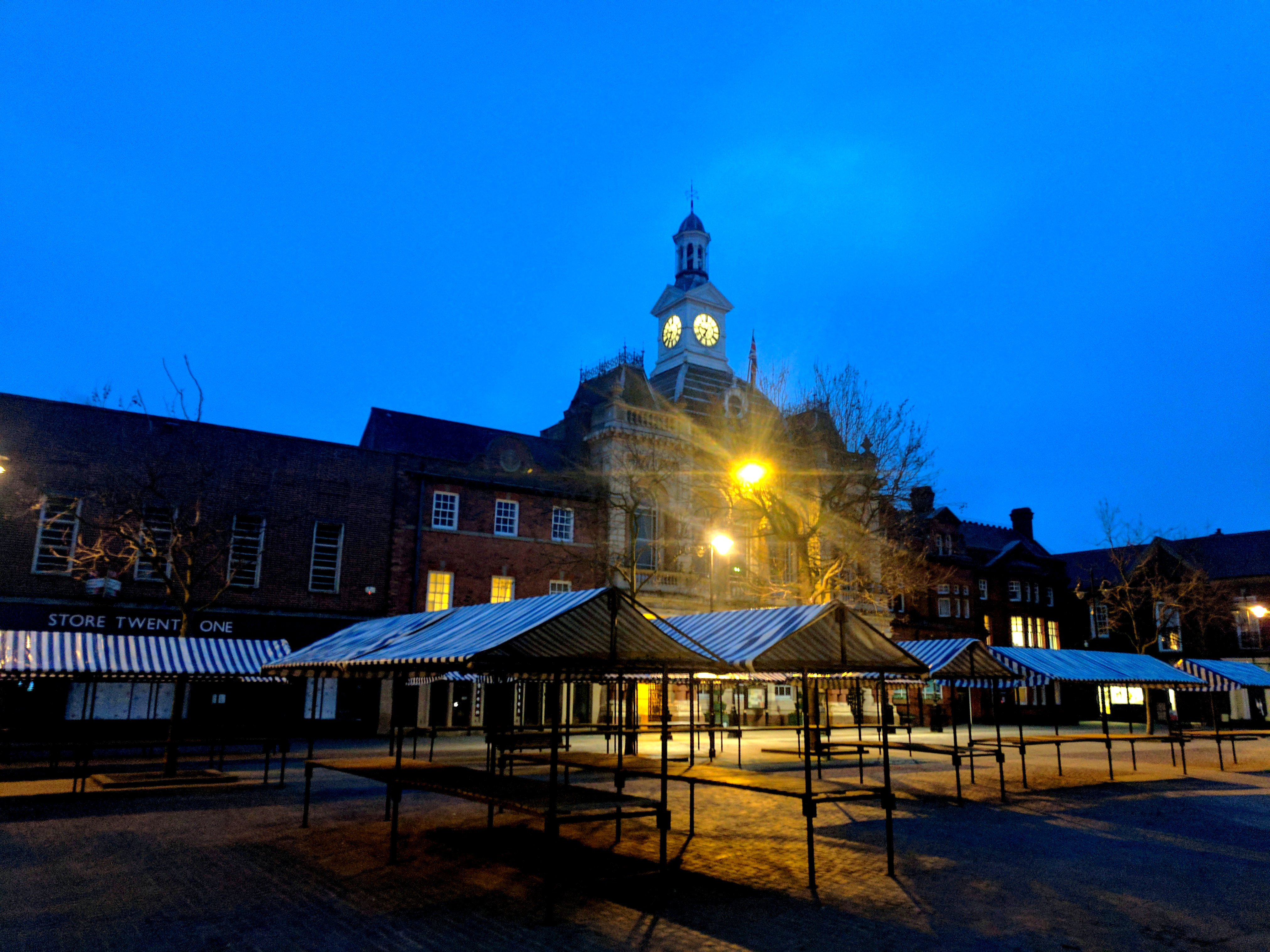 Retford Town Hall, The Square, Retford Wikidata has entry Q26651614 with data related to this item.